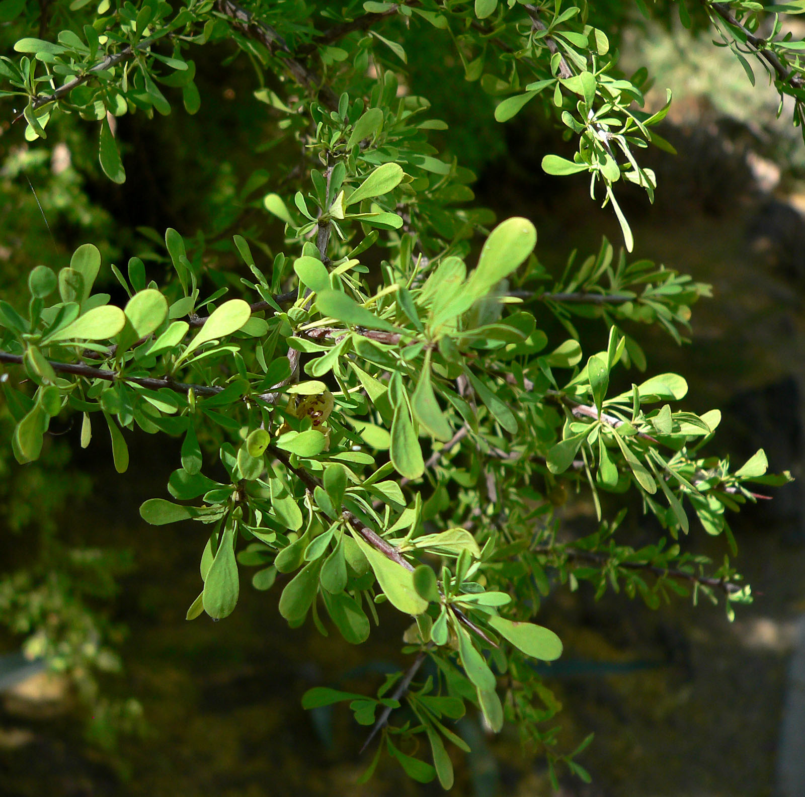 Condalia globosa at the Ethel M Botanical Cactus Garden, Las Vegas, Nevada